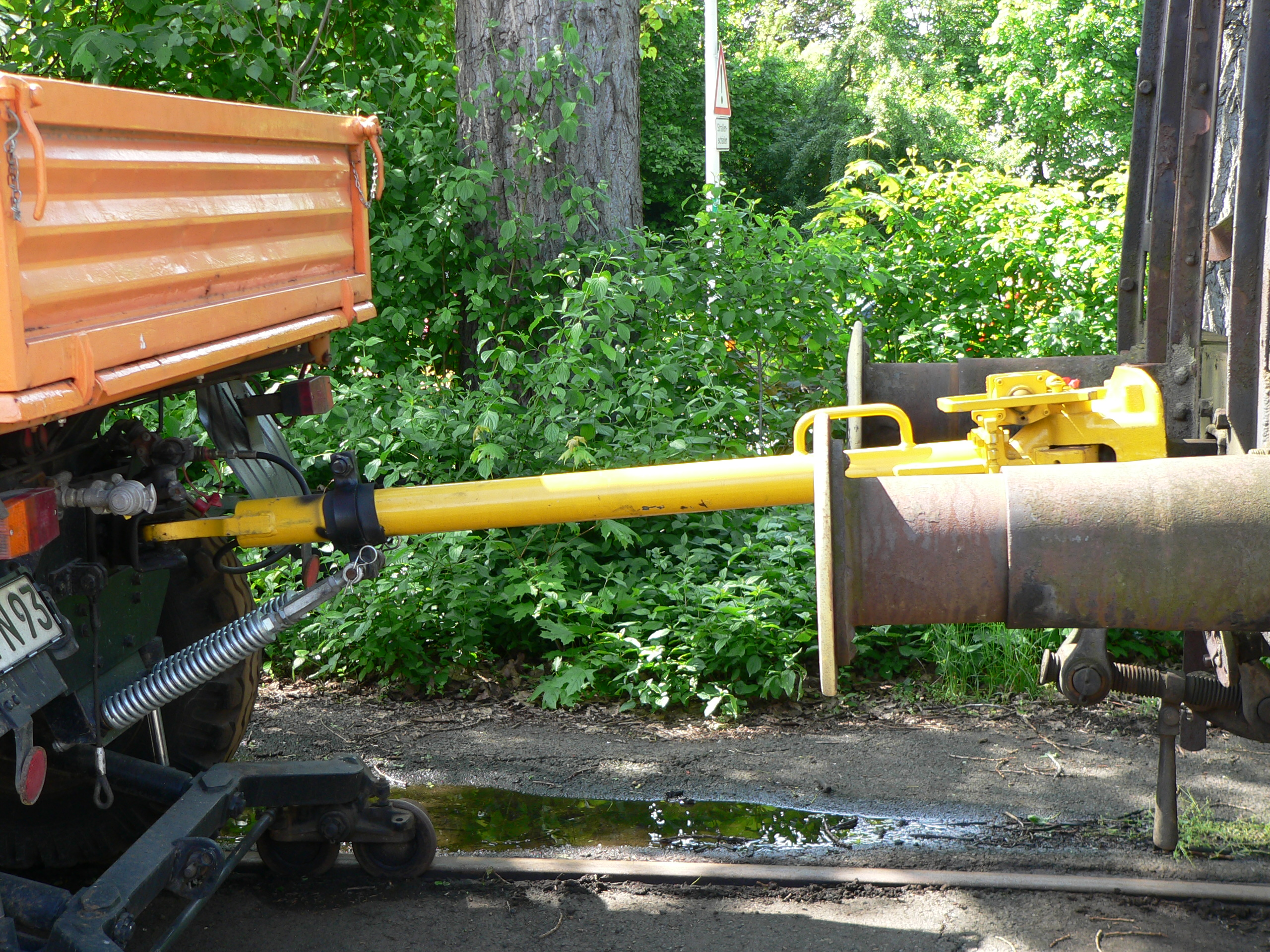 Coupling rod of Shunting vehicle